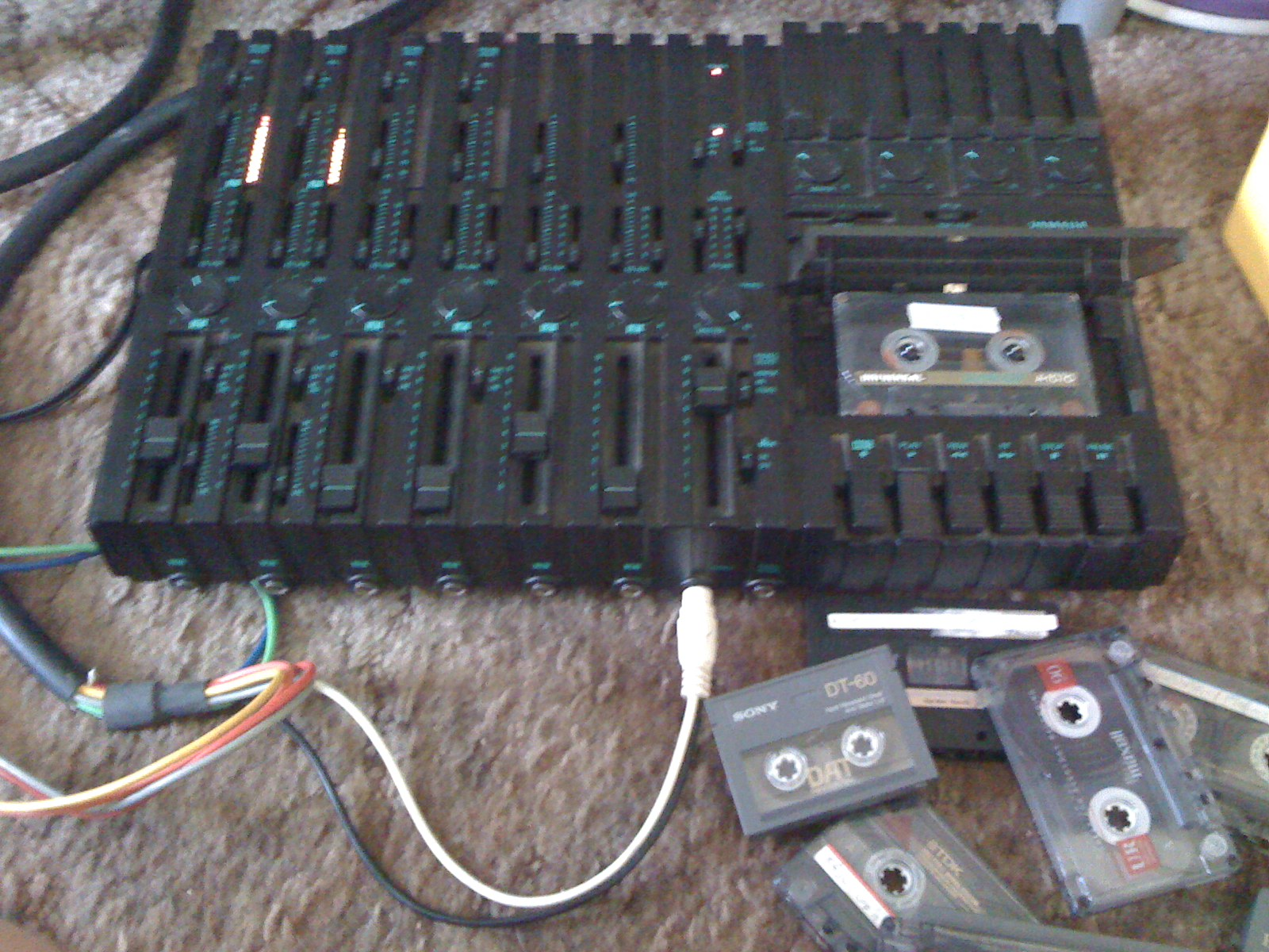 Yamaha MT2X 4-track Cassette Recorder Picked up an old 4 track tape recorder at a flea market. I have a bunch of old 4 track tapes from high school rock bands I played in.